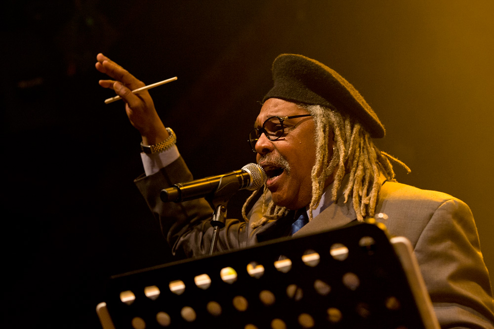 Juan de Marcos González, moers festival 2012